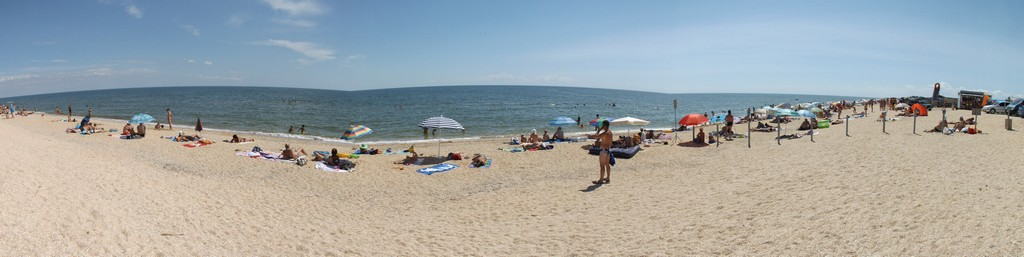 Azov Sea beach in Strilkove, Kherson Oblast, Ukraine